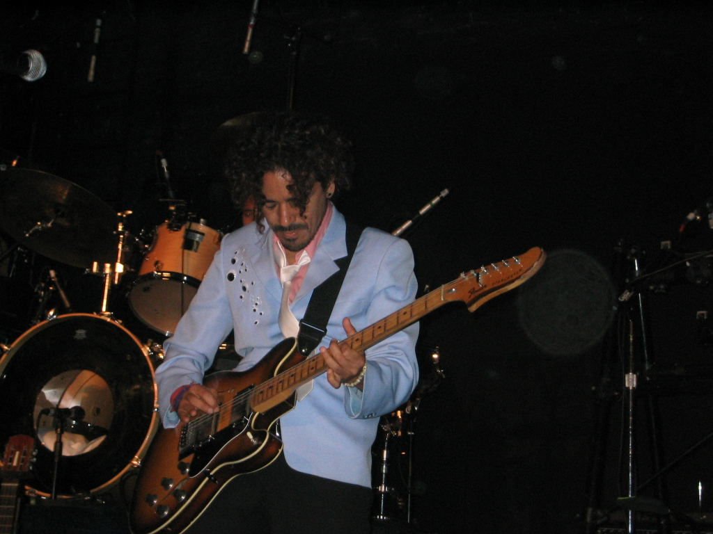 Rubén Isaac Albarrán of the group Café Tacuba taken 08-2003 by fabioj in the Bowery Ballroom NYC.